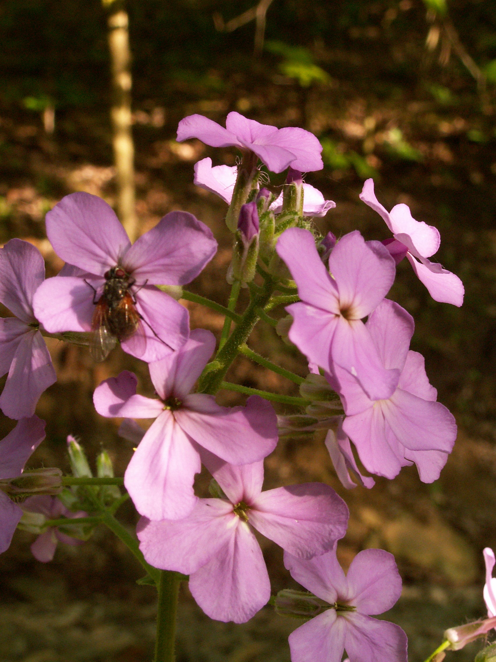 Hesperis matronalis, Dame’s Rocket or Dame’s Violet, blooming in Mount Lebanon, near Pittsburgh, Pennsylvania.